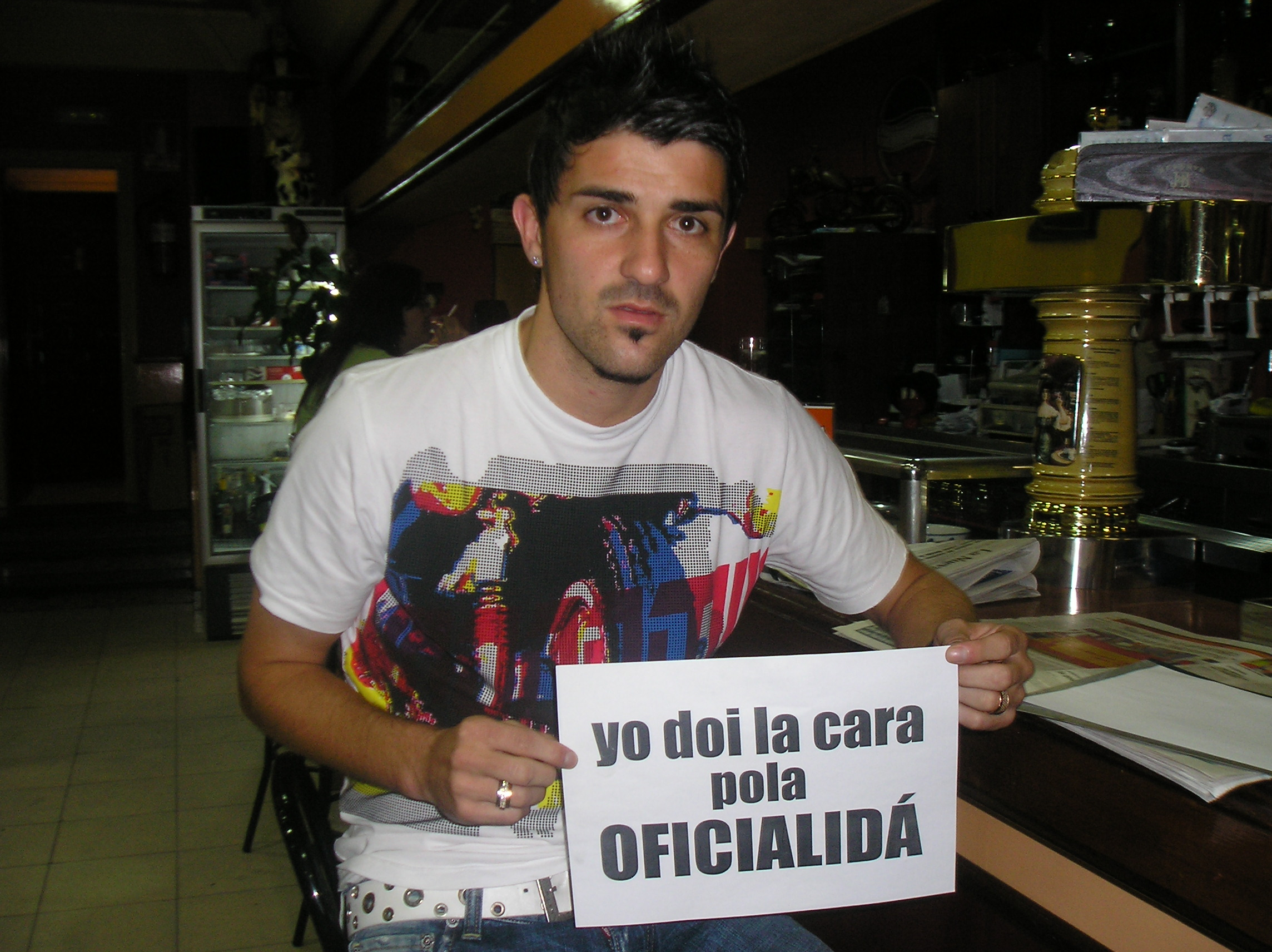 David Villa supporting an internet claim for the asturian language Doi la cara pola Oficialidá